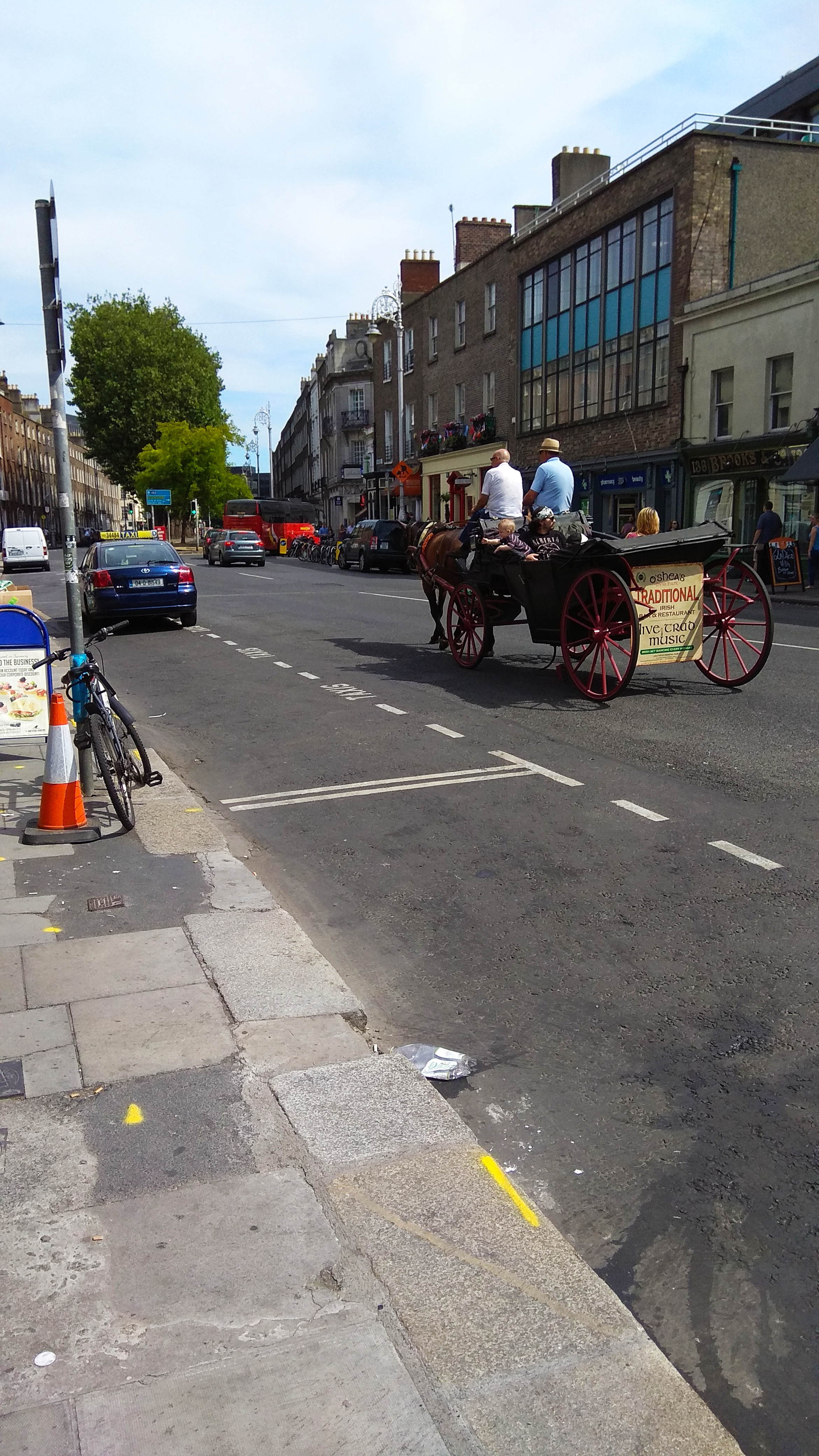 Baggot Street, Dublin